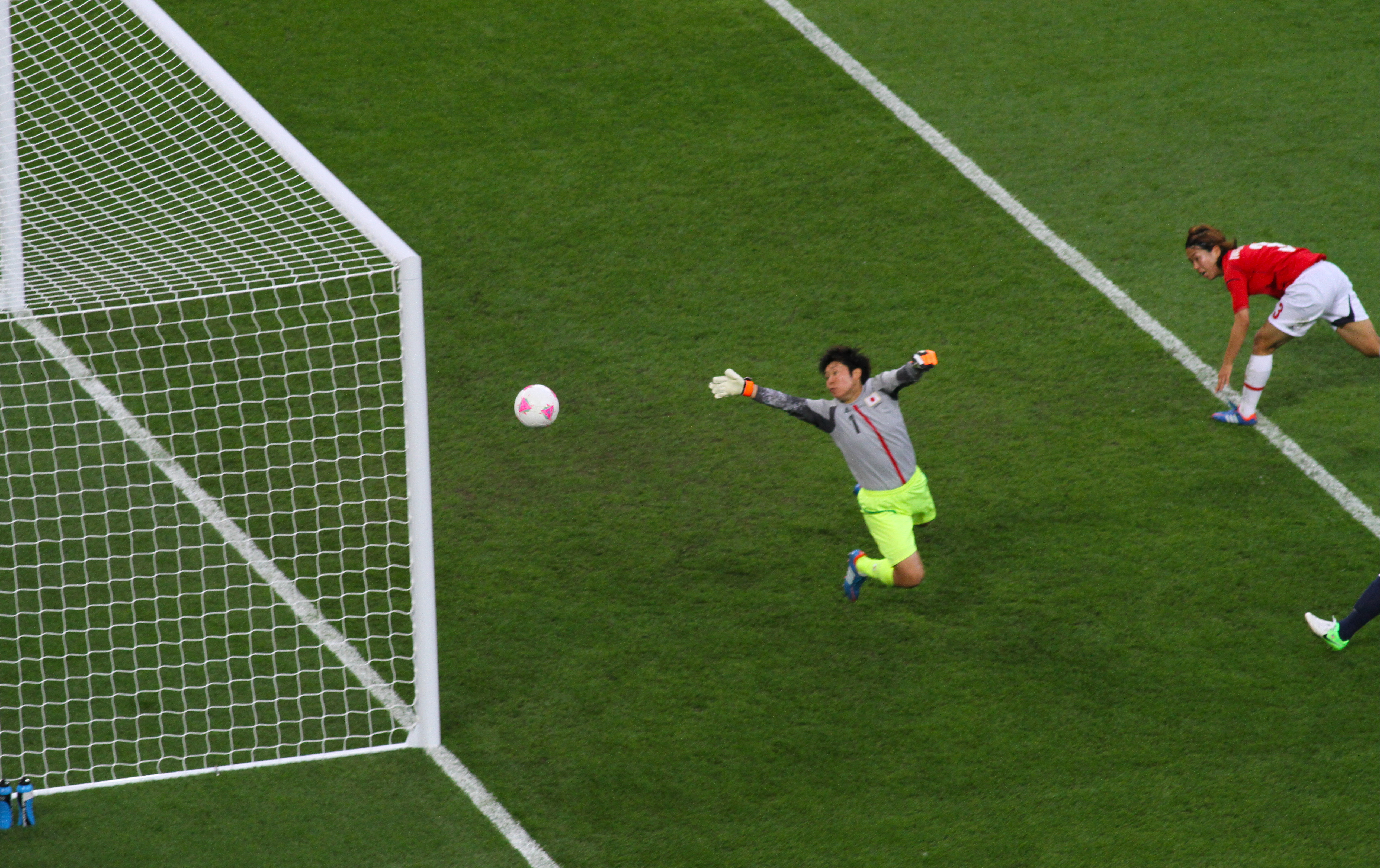 Miho Fukumoto watches as a shot by Carli Lloyd (not pictured) goes into the goal.